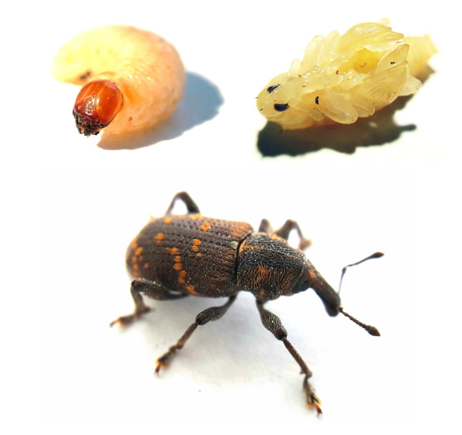 Developmental stages of the large pine weevil (Hylobius abietis): larvae, pupae and adult.